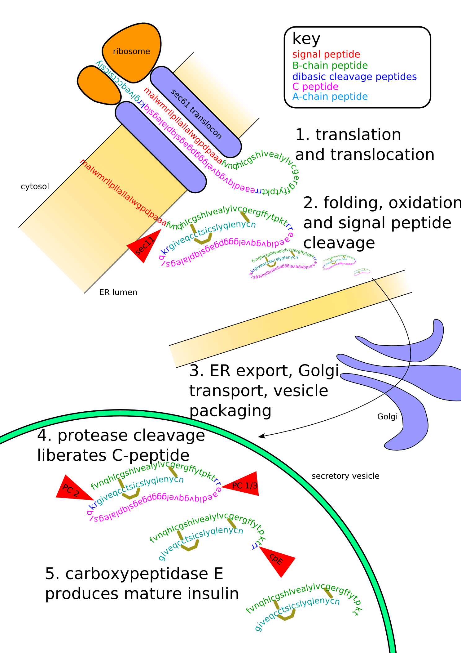 created by Isaac Yonemoto using Inkscape